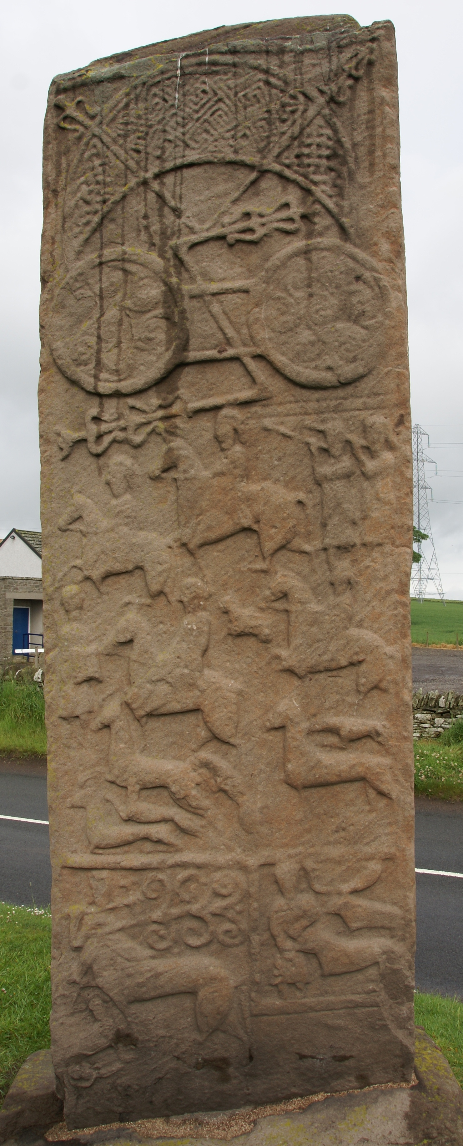 Aberlemno, Angus, Scotland - Roadside Cross Slab, side depicting a hunting scene